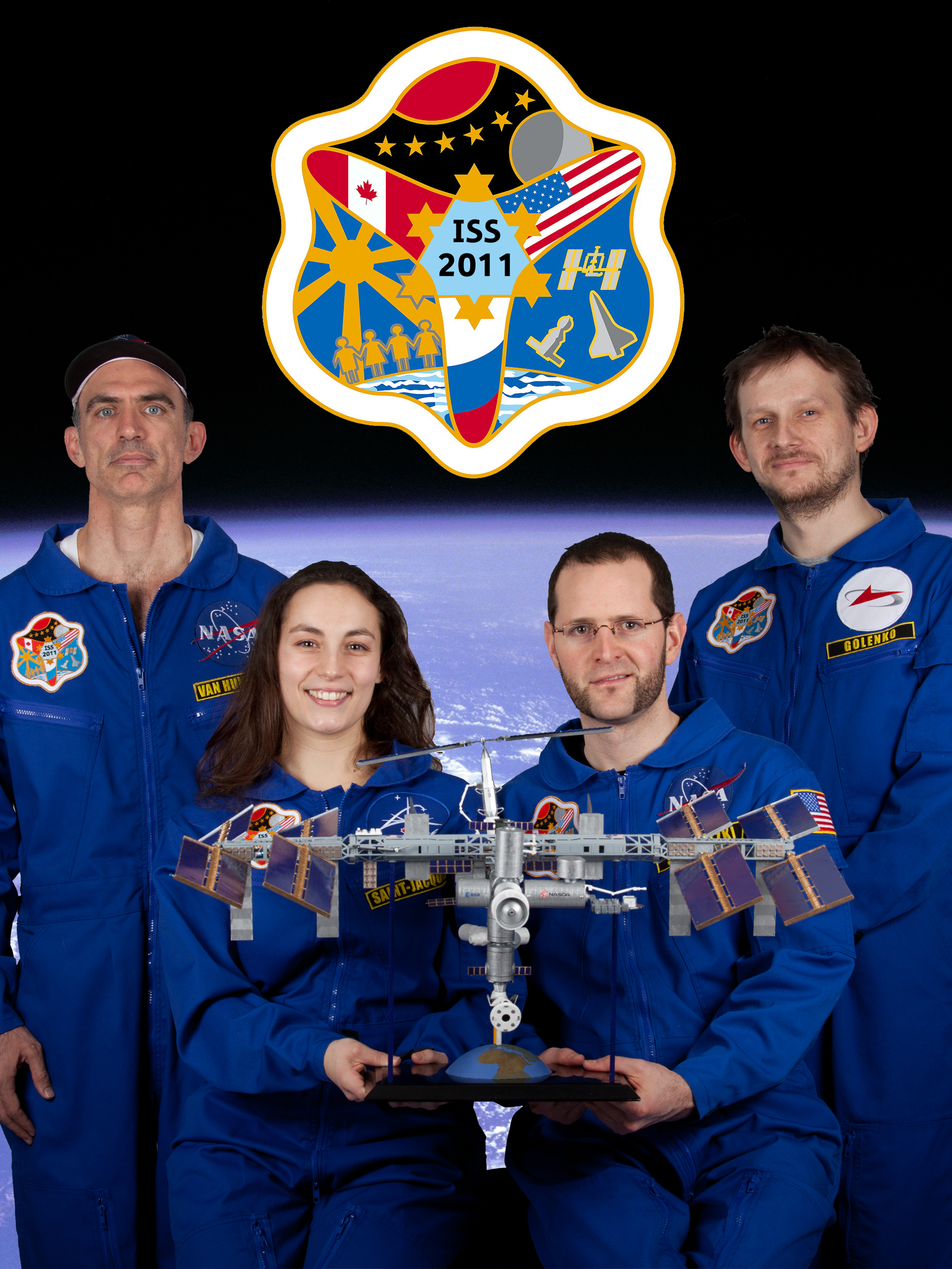 monochrom's ISS 2011; cast (left to right: Jeff Ricketts, Claire Tudela, Geoff Pinfield, Maciej Salamon)